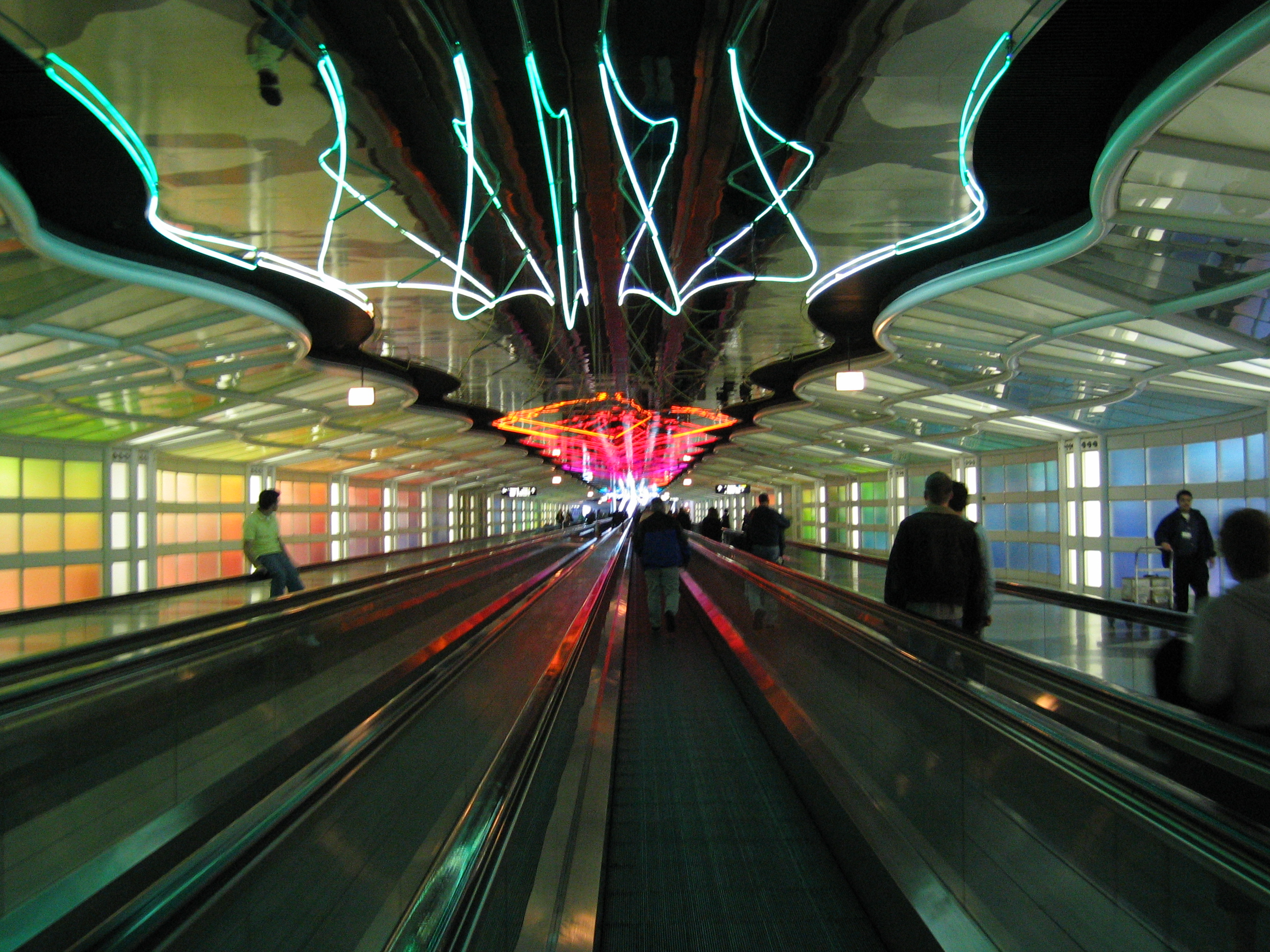 The tunnel between Concourse B and C in Terminal 1 at Chicago's O'Hare Airport - Operated by United Airlines. The tunnel features a 744 foot long kinetic neon sculpture titled, "The Sky's the Limit" (1987), by Michael Hayden.